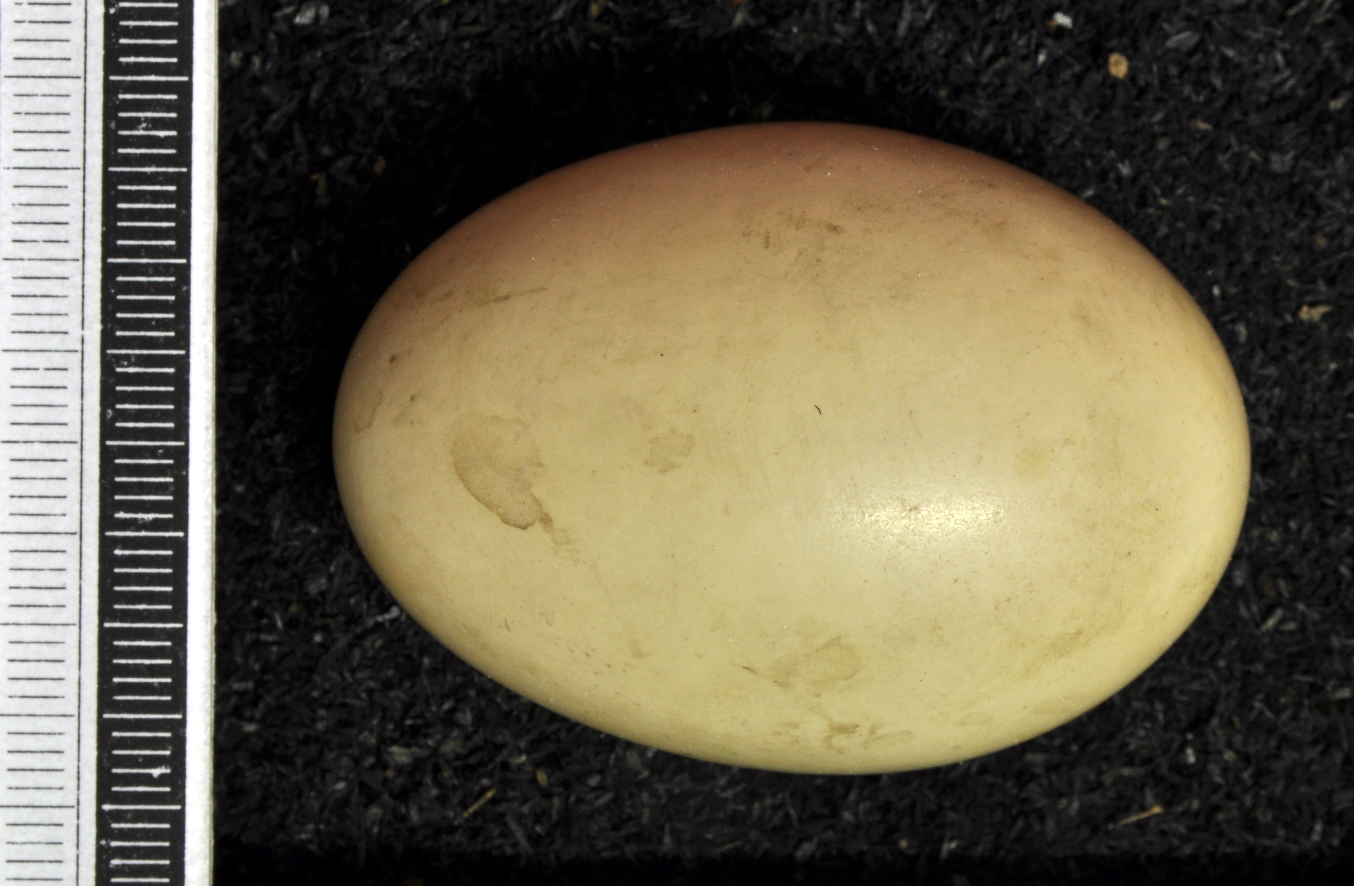 Long-tailed duck Clangula hyemalis , egg, Coll. Museum Wiesbaden